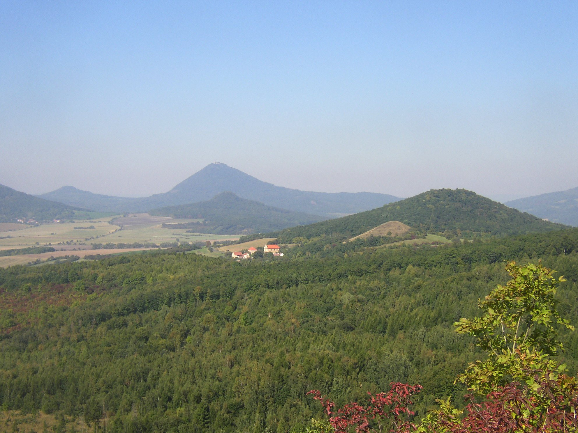 České středohoří, Czech Republic. Sutomský vrch (505 m) as seen from Košťál (481 m).